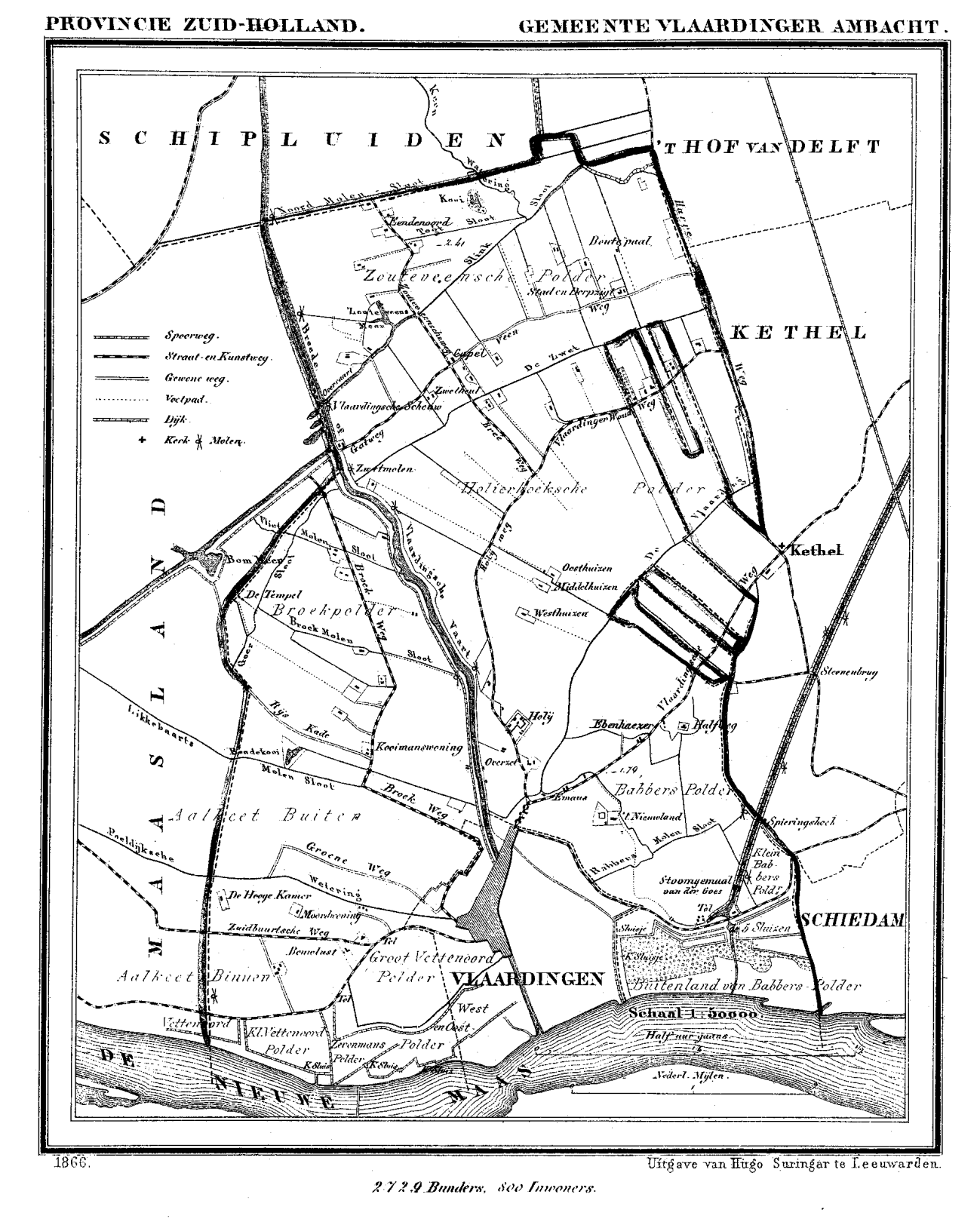 Historic map of Vlaardinger Ambacht (now part of municipality Vlaardingen), South Holland, the Netherlands